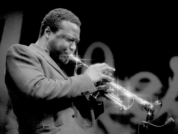 Wallace Roney at Monterey Jazz Festival 9/92, with Miles Davis Tribute Band, featuring Herbie Hancock, Wayne Shorter, Ron Carter & Tony Williams Photo: Brian McMillen /